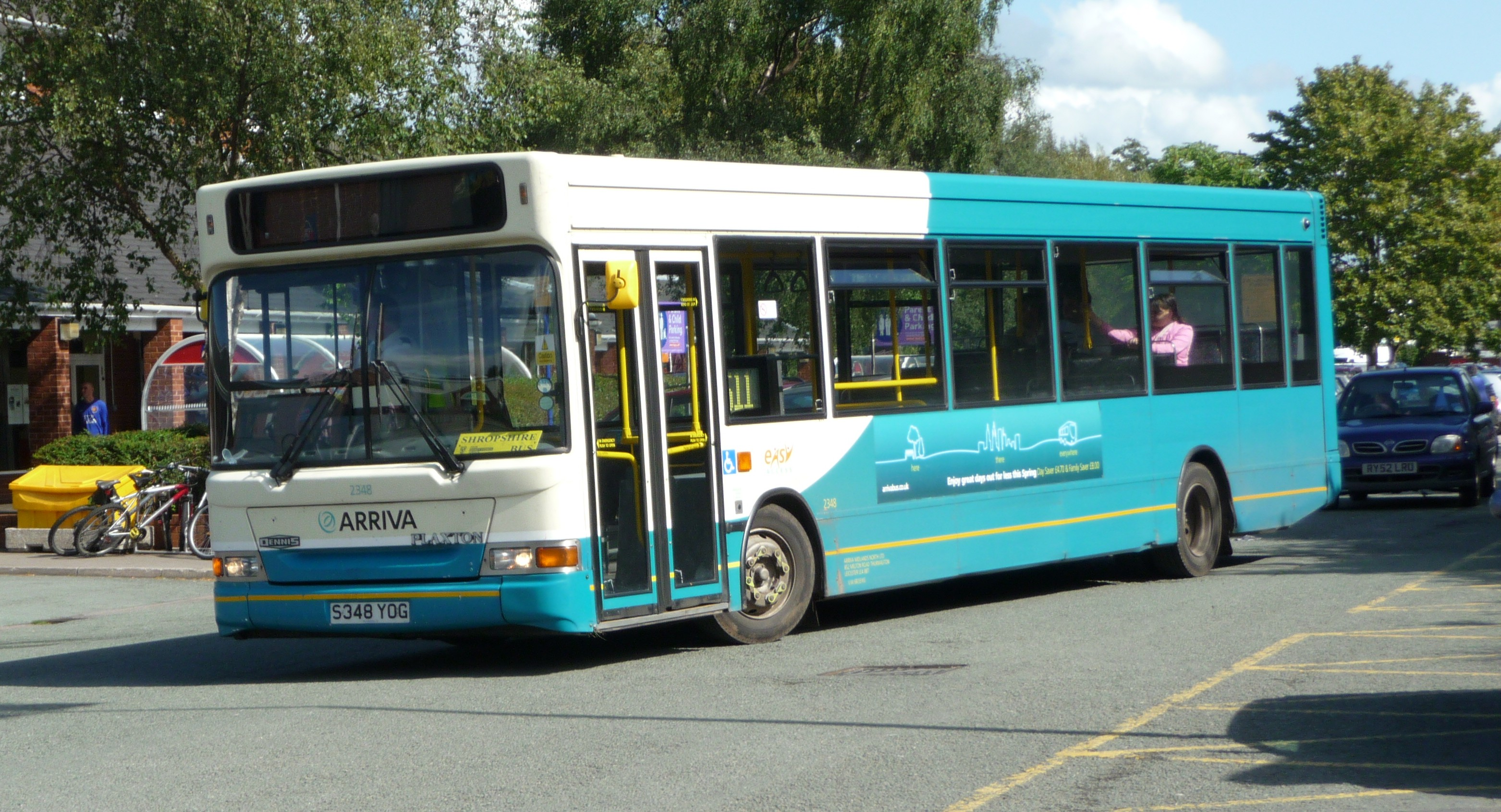 Arriva Midlands North 2348 (S348 YOG), a Dennis Dart SLF/Plaxton Pointer 2 SPD, arriving at the bus stands within the car park of the Tesco supermarket in Whitchurch, Shropshire, England, on route 511. Rather bizarrely, the bus station in Whitchurch is a series of drive in, reverse out bays in the middle of a Tesco car park, which requires buses to drive through the car park to get to the stands, having to wait for cars going into spaces, or even wait behind cars waiting for spaces to be vacated. Even more strangely, the car park has two entrances and exits, and effectively forms a through road that many people use, which happens to pass right behind where the bus stands are, meaning buses have to reverse out into passing traffic. Obviously chaos ensues.